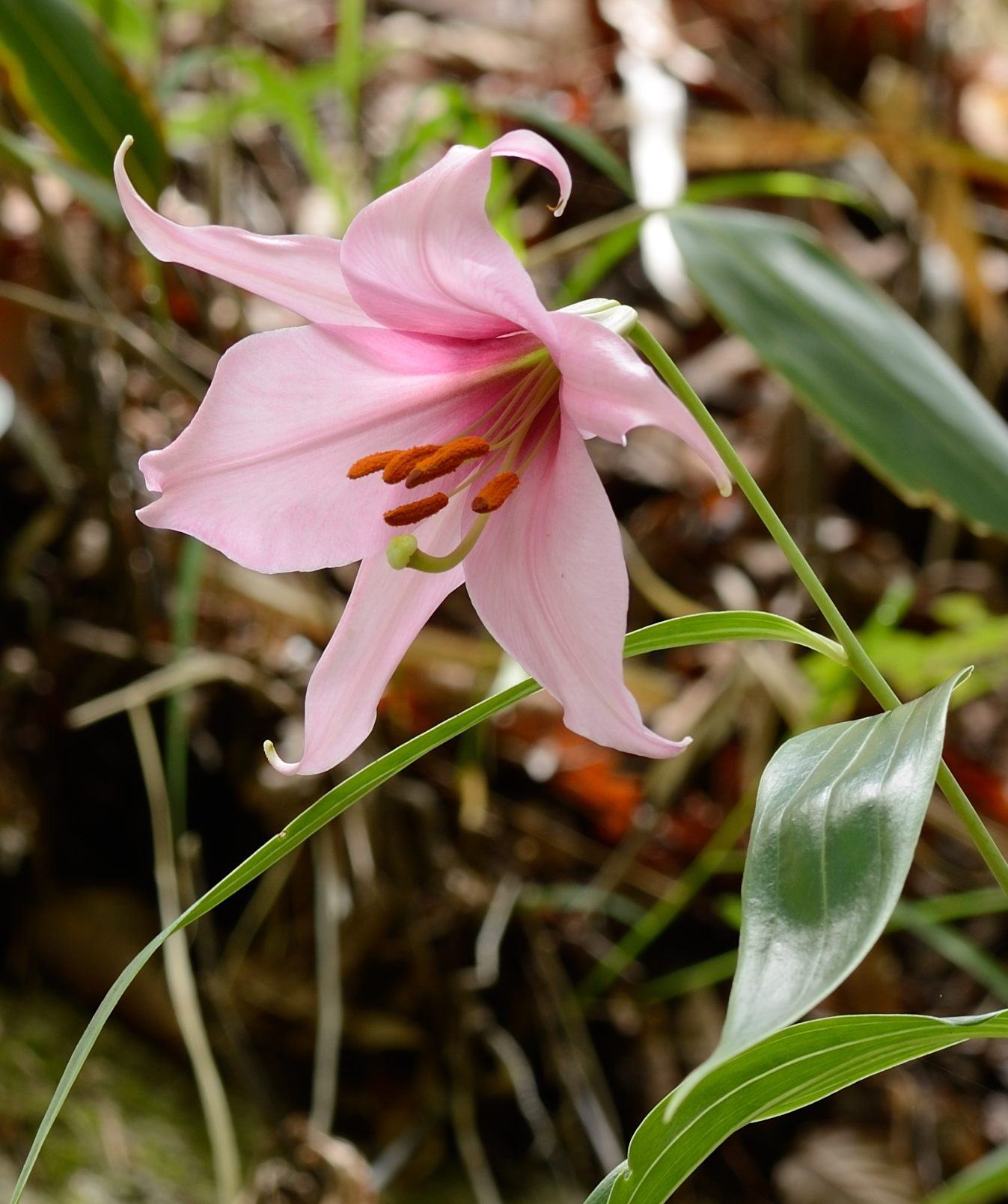 Lilium japonicum 'Hyuga form' in Mount Hokodake